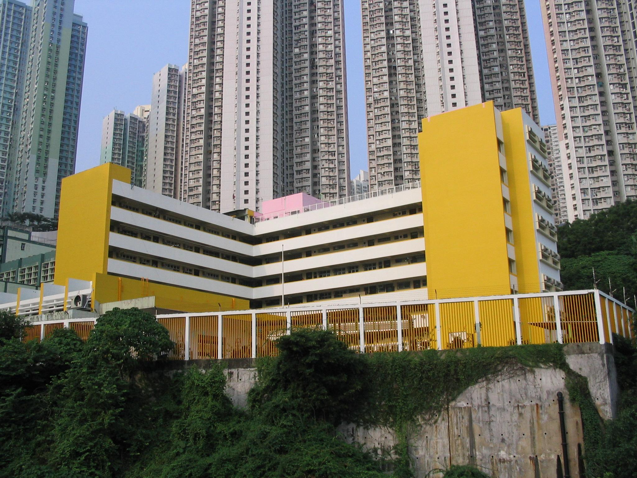 聖公會基孝中學 (SKH Kei Hau Secondary School).